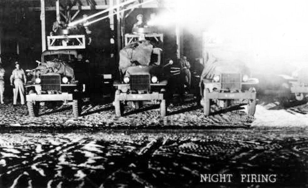 Kingman AAF Postcard - Night Gunnery Training